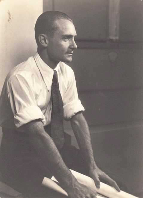 Eugenio Montuori (1936)